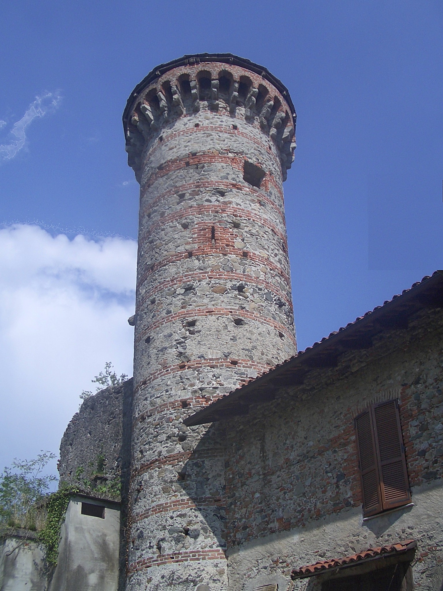 Parella, the tower of the castle (XIV century)